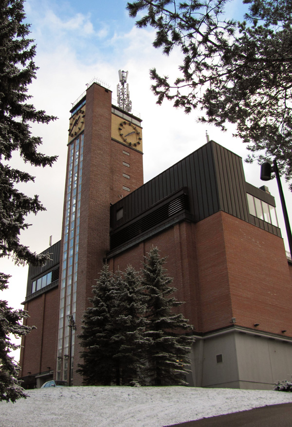 Vesilinna tower in Jyväskylä